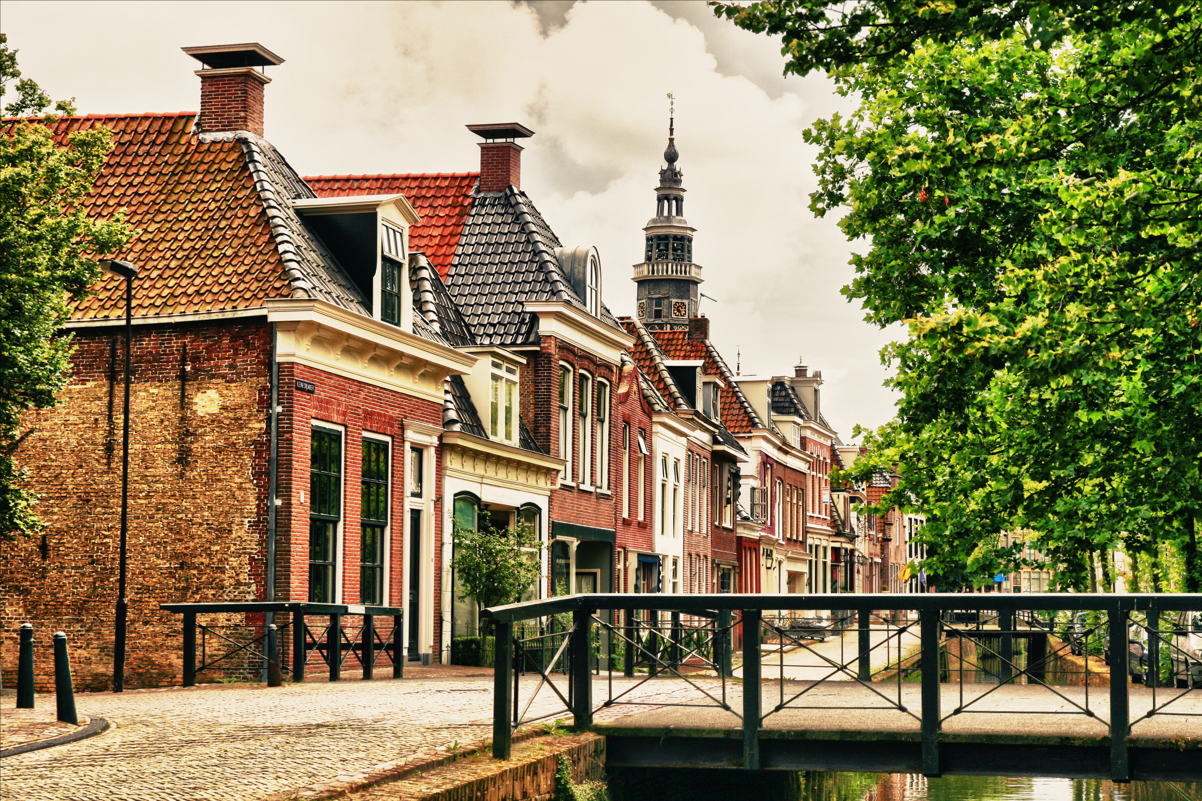 Bolsward - Fryslân - the Netherlands